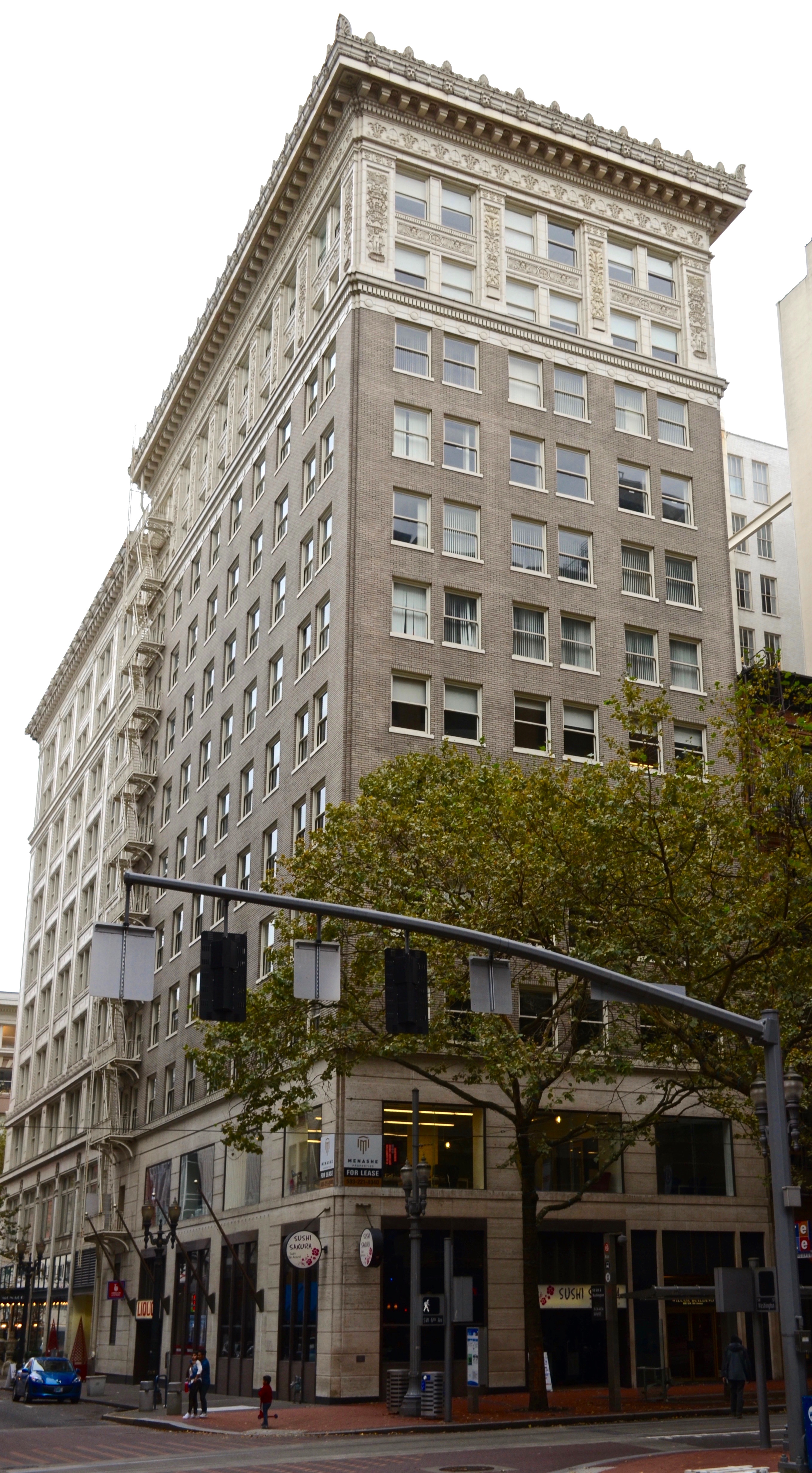 The Wilcox Building, at 6th & Washington in downtown Portland, Oregon, was built in 1911 and is listed on the U.S. National Register of Historic Places.